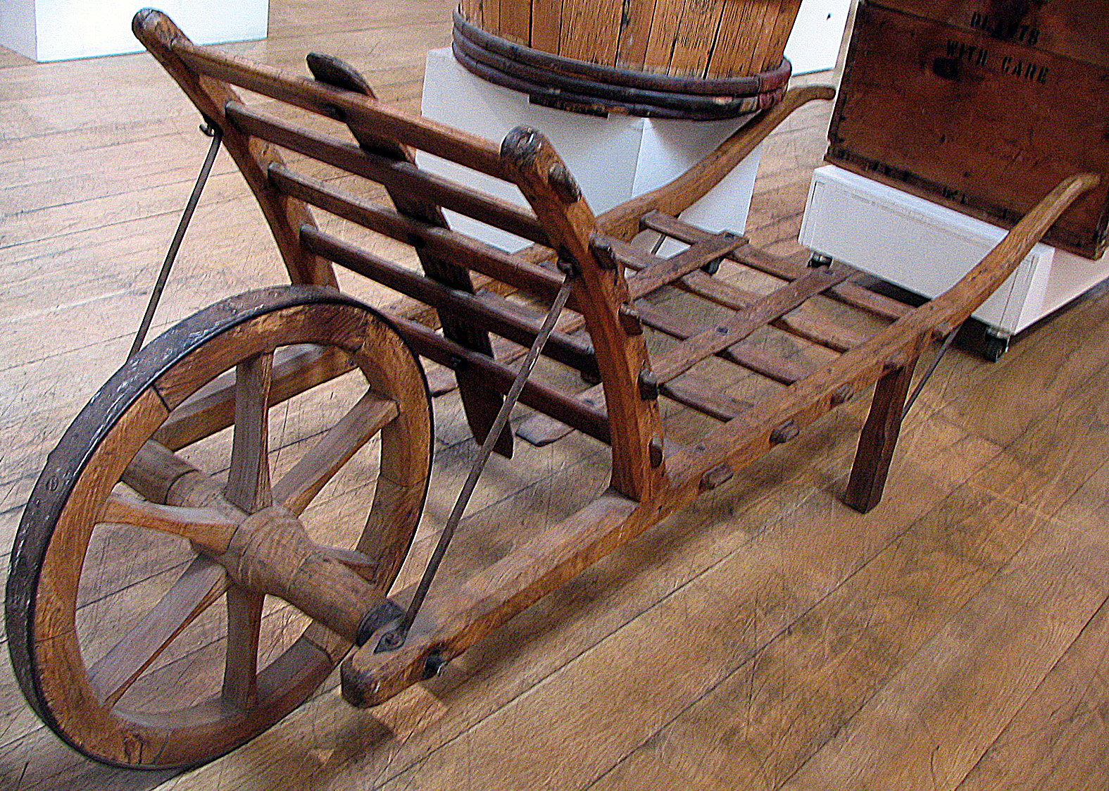 Wheelbarrow, Museum of Garden History, Lambeth, London